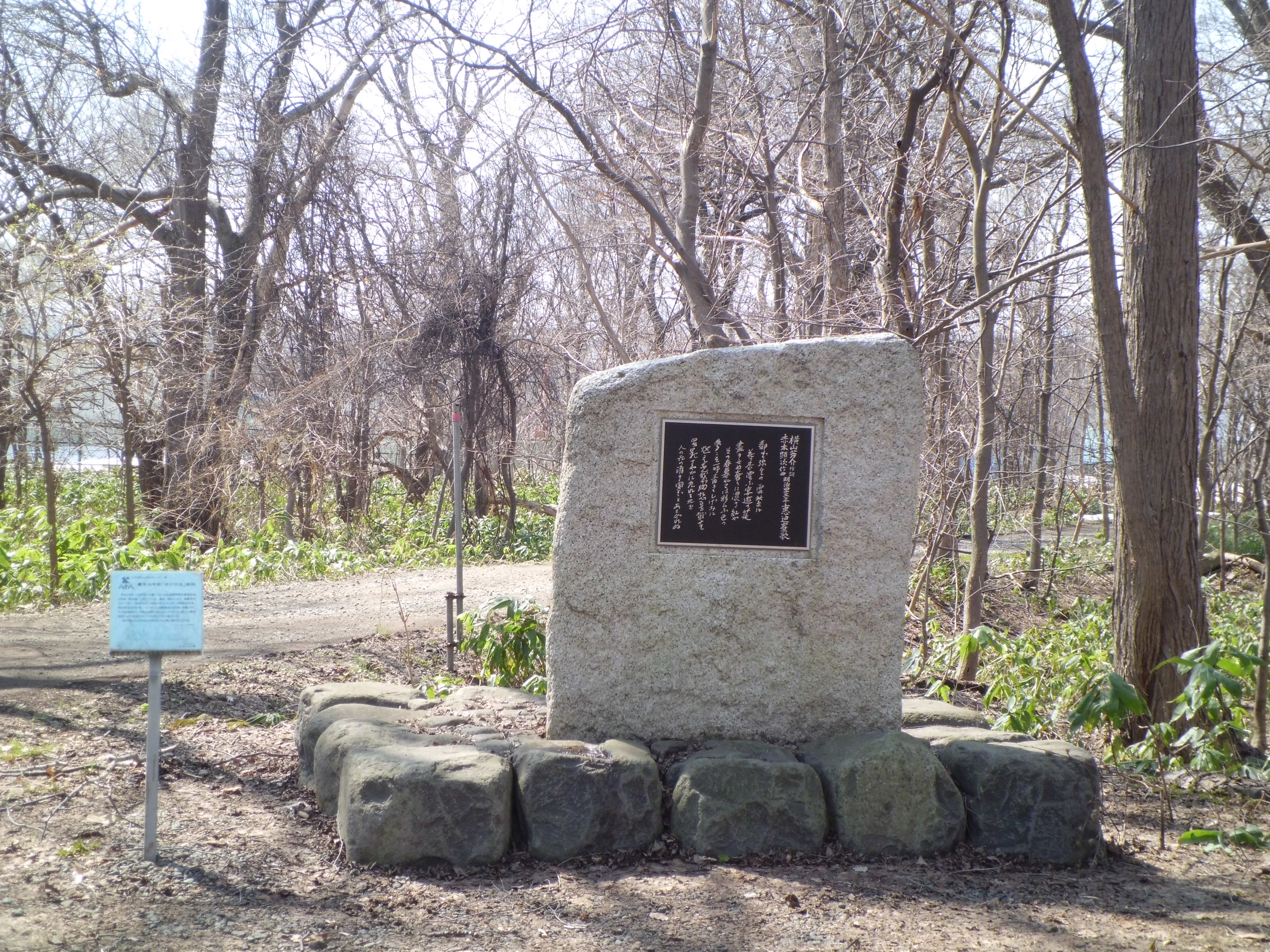 Monument to "Miyakozo Yayoi," a song of Keiteki Dormitory